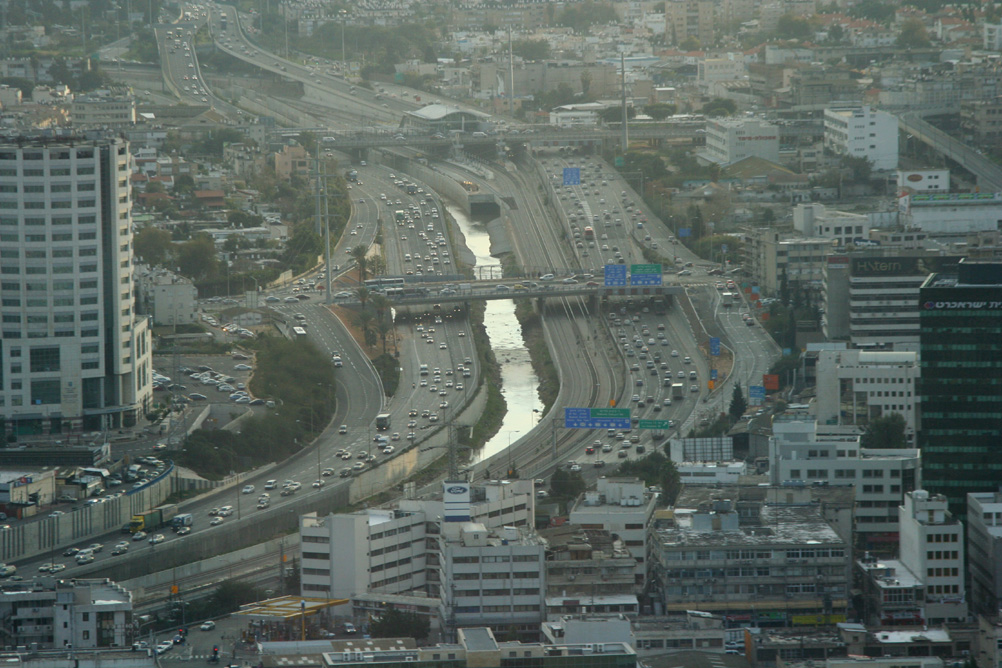 Ayalon Highway, La guardia Intr. Beivushtang 08:53, 16 November 2006 (UTC)